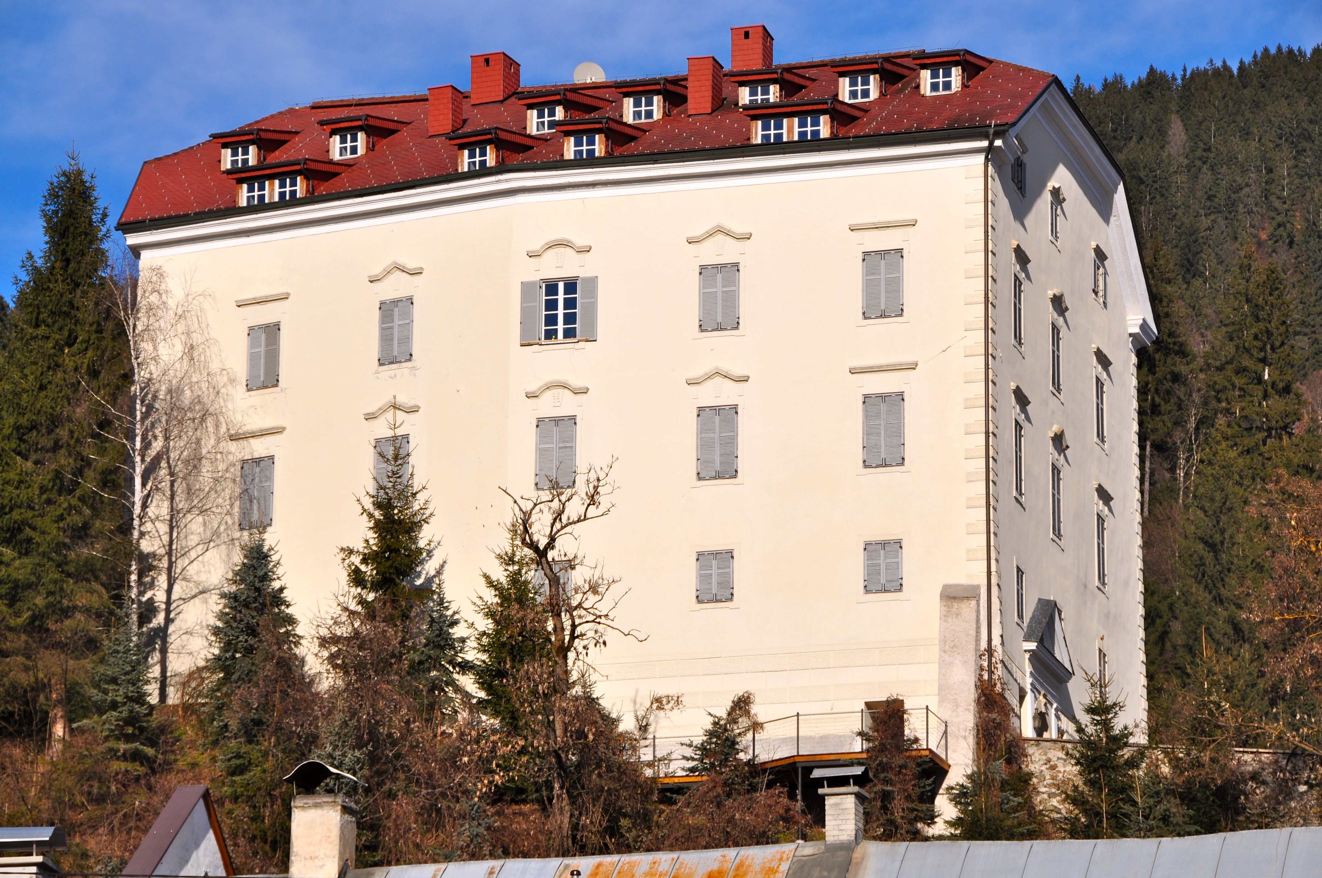 Castle Greifenburg on Gnoppnitzstrasse #1 in Greifenburg, municipality Greifenburg, district Spittal an der Drau, state Carinthia, Austria, EU